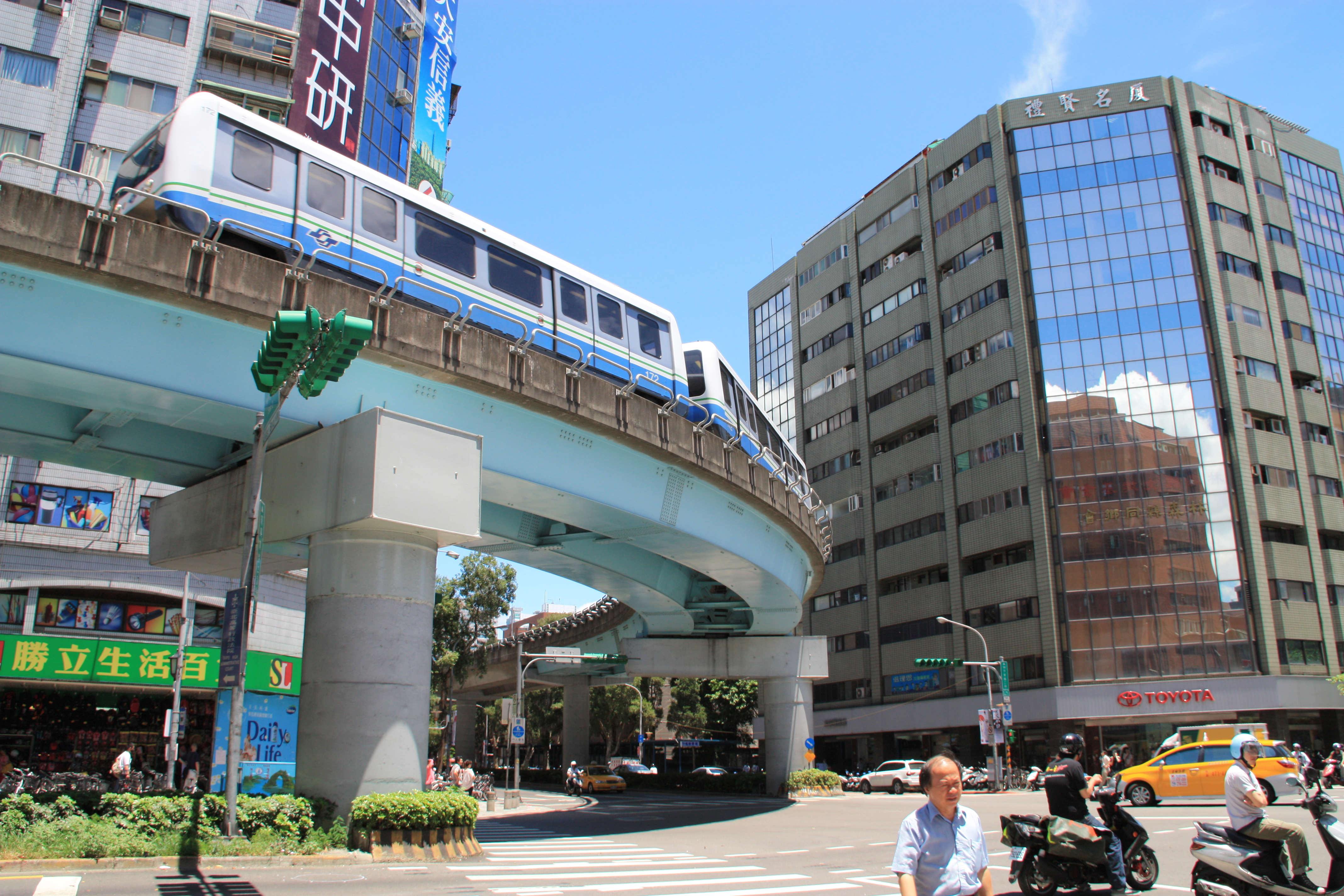 TáiběiDa-an DistrictHéPíng East Rd - FùXìng South Rd IntersectionWenshan-Neihu Line (elevated) of the Táiběi Metro